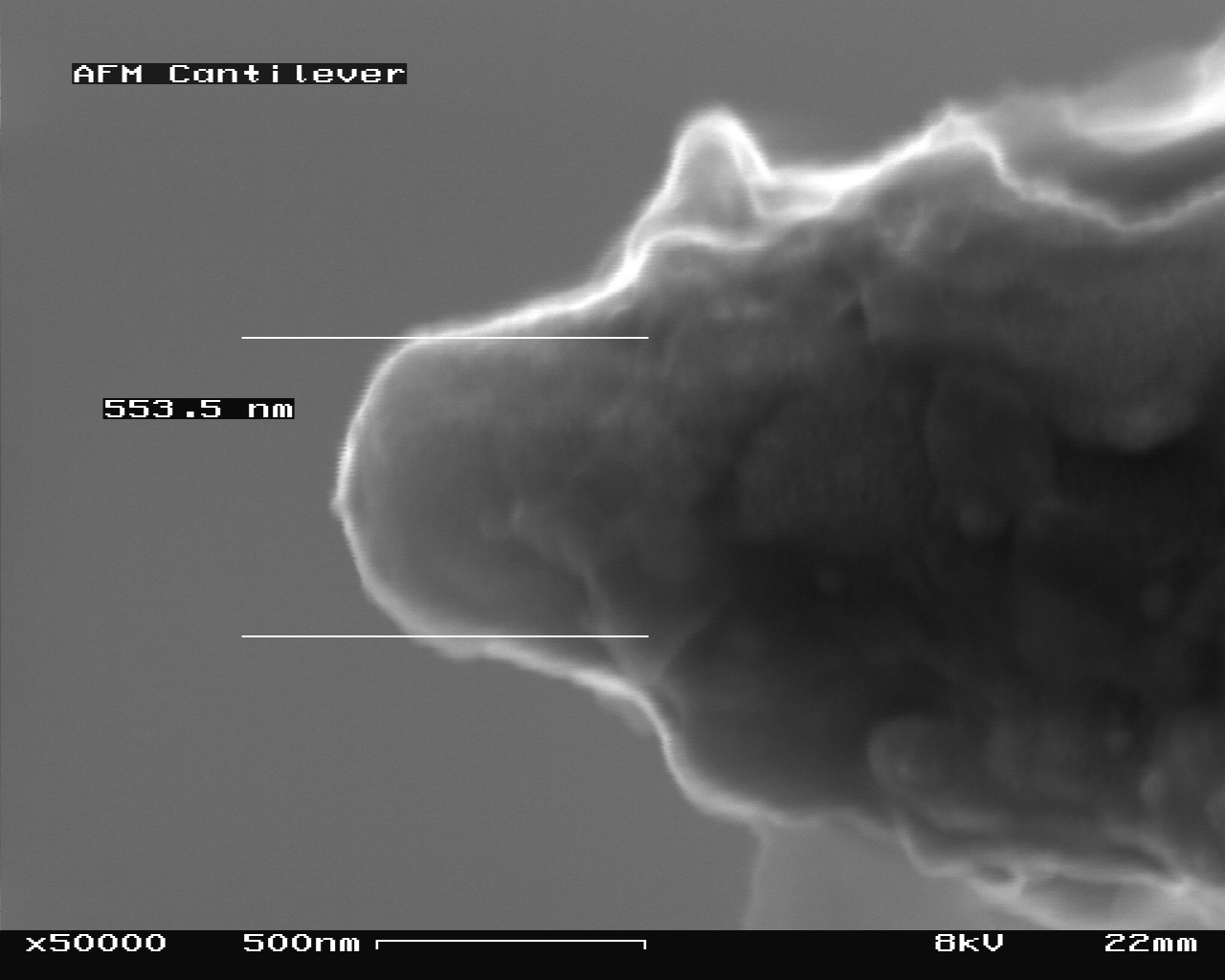 AFM (used) tip in Scanning Electron Microscope, magnification 50000x